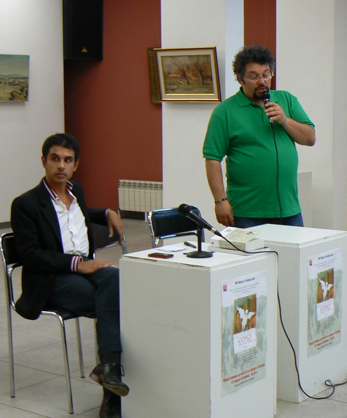 The British writer Rana Dasgupta and his Bulgarian publisher Manol Peykov from "Janet 45" on the literary reading of his novel "Solo", Sofia, April 27, 2010